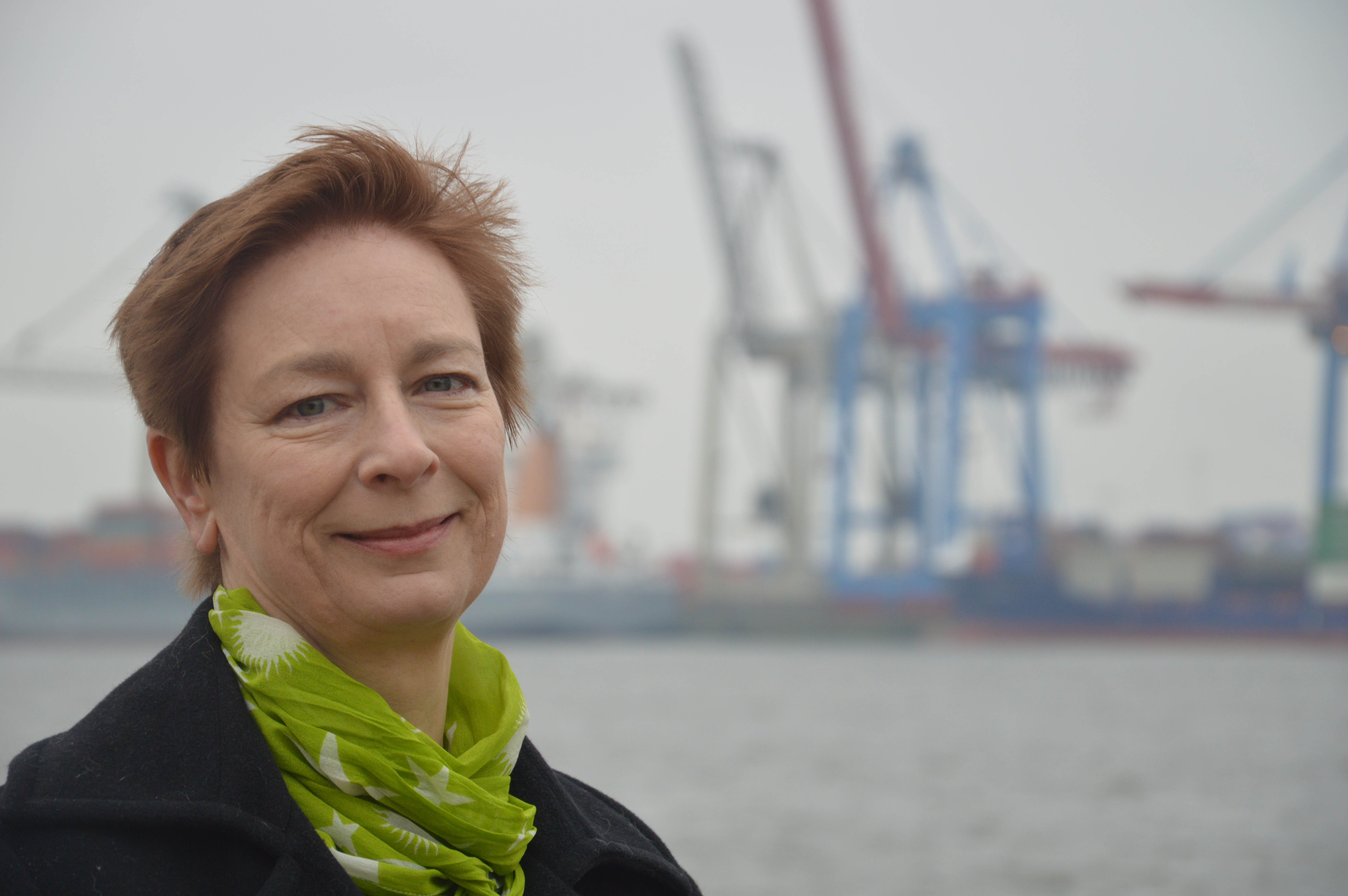 The authoress Susanne Bienwald in her adoptive home Hamburg.